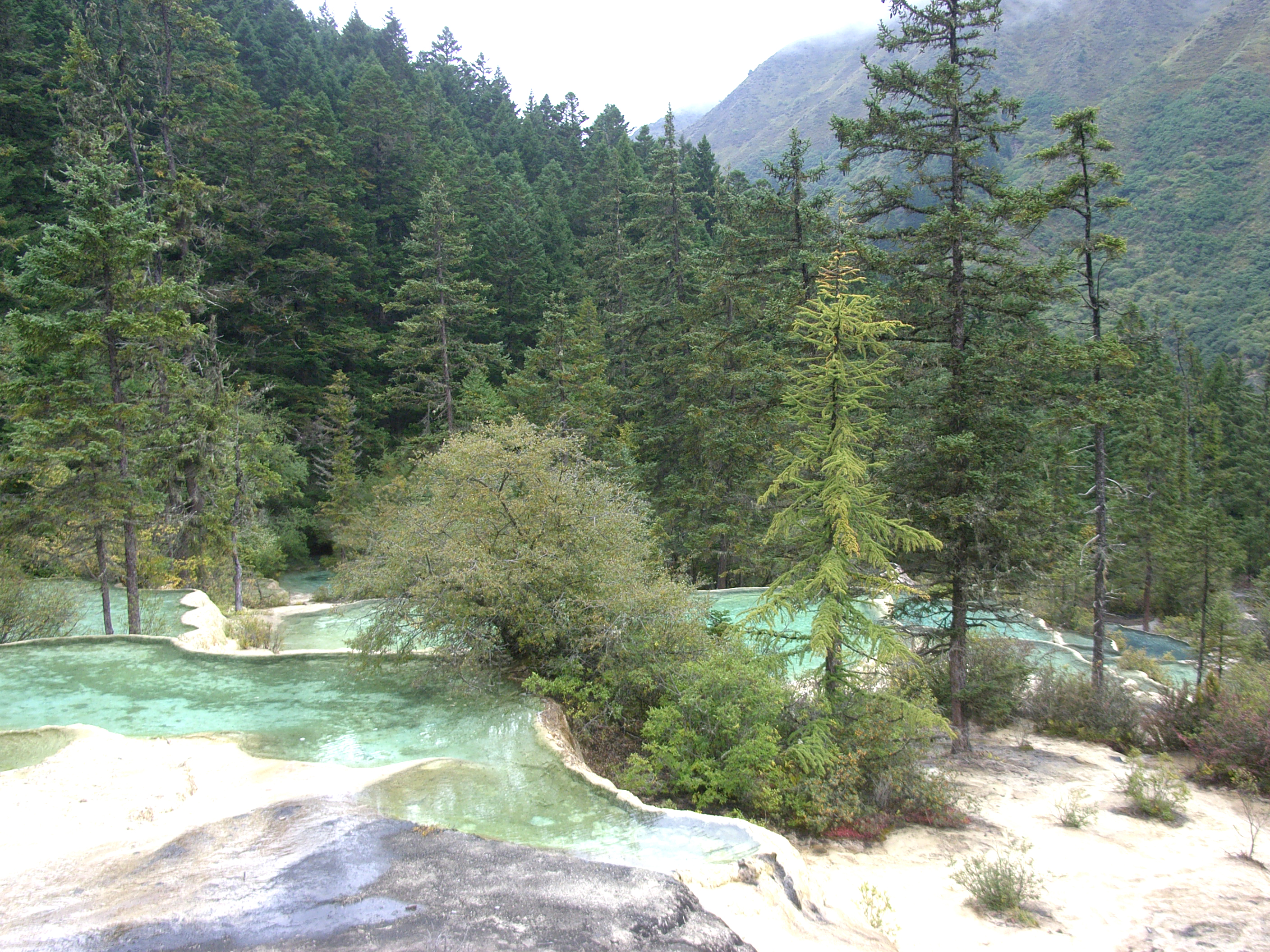 Mixed conifer forest dominated by Picea asperata, Huanglong Valley, Sichuan, China.